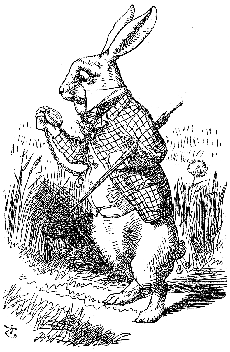 The White Rabbit